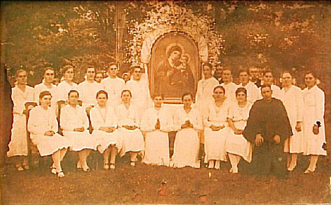 The picture depicts a group of girls from the 1920s sitting around an icon of Mary, the mother of Jesus in the garden of the Greek Catholic Cathedral of Hajdúdorog, Hungary. According to tradition virgin girls, dressed in white carried the decorated icon on their shoulders around the cathedral on the Holy Virgin's feast day. The icon was even carried to Máriapócs, a pilgrimage site about 55 km away, on occasions of pilgrimage in honour of the Holy Mother. The icon itself can be seen in the Cathedral of Hajdúdorog.